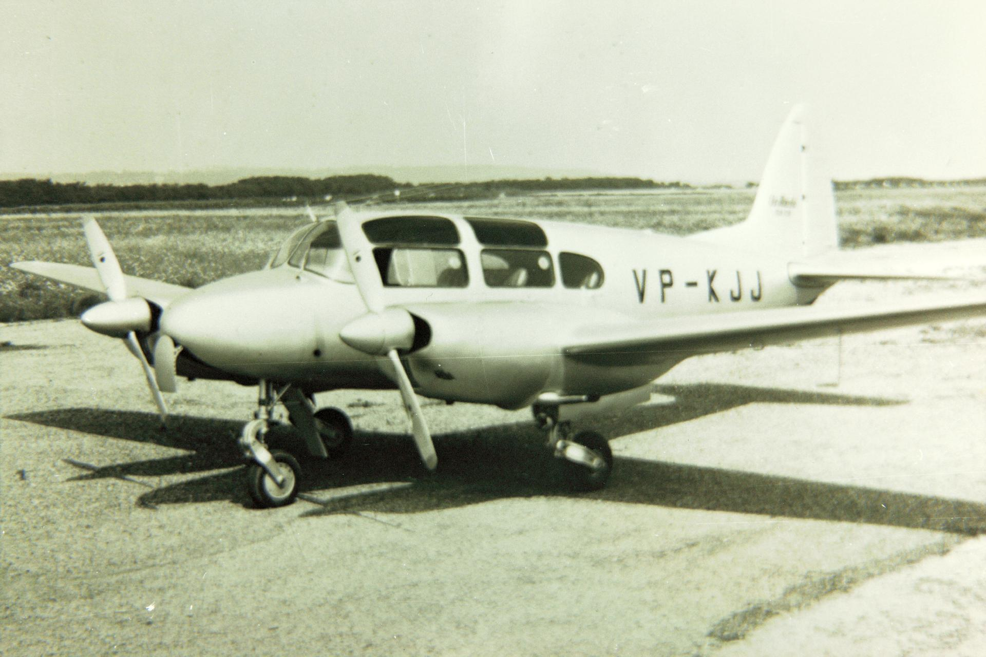 AerMacchi M.B.320 (VP-KJJ) light transport awaiting delivery to East African Airways.